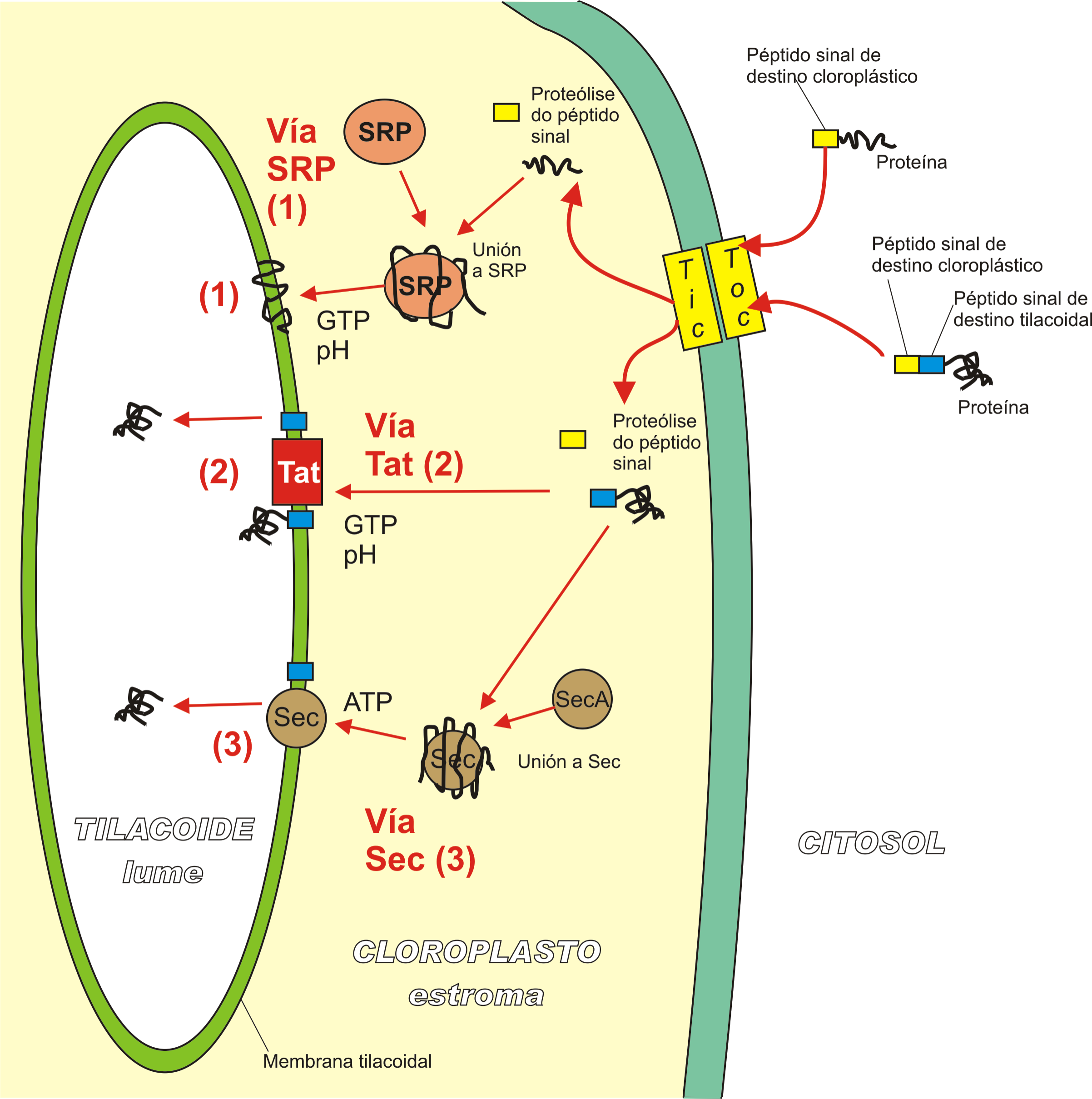 thylakoid targeting